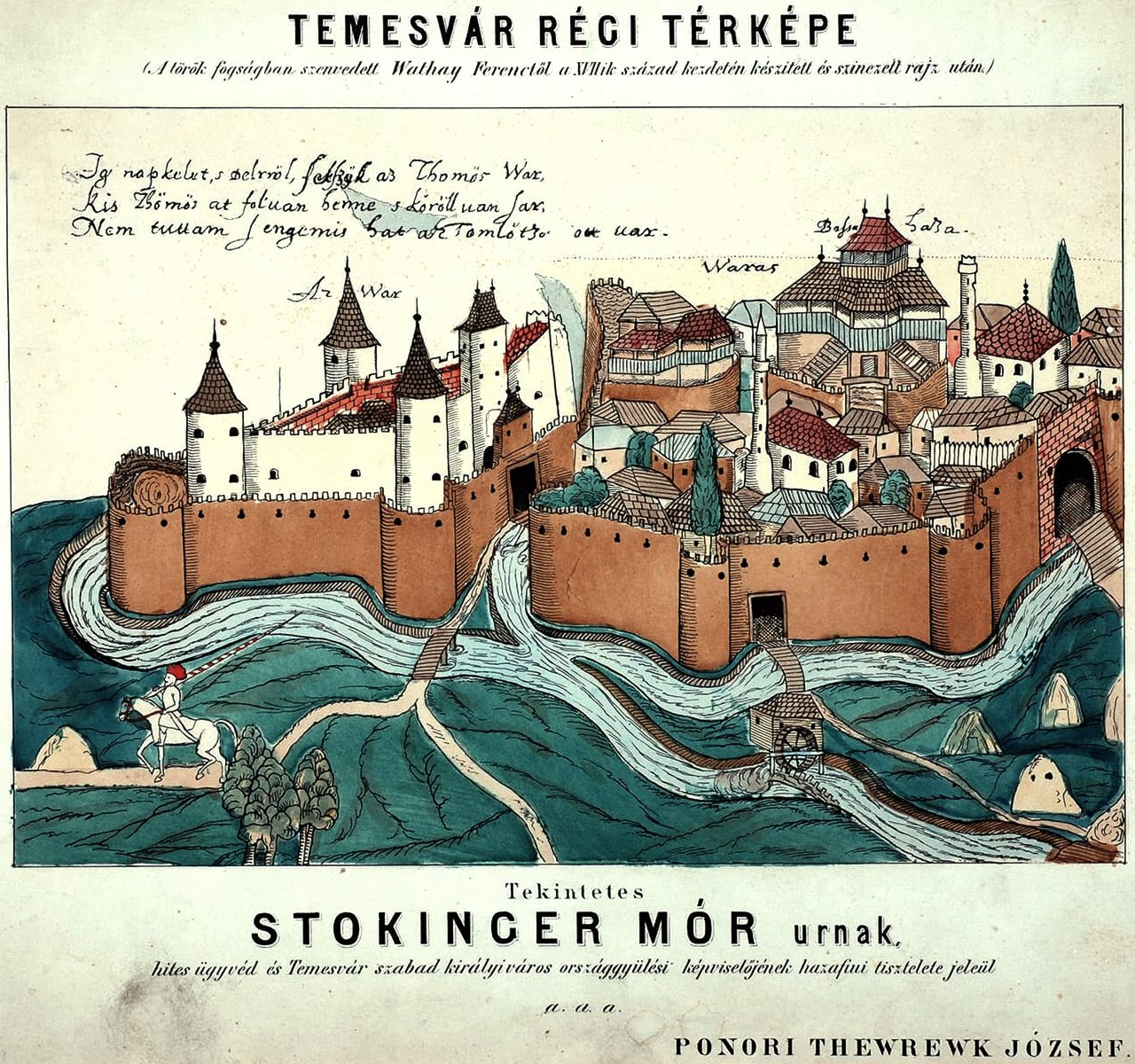 The city of Timișoara in 1602. Chromolithography made in 1836 in Vienna, by Ludwig Förster, on the basis of Ferenc Wathay sketch.